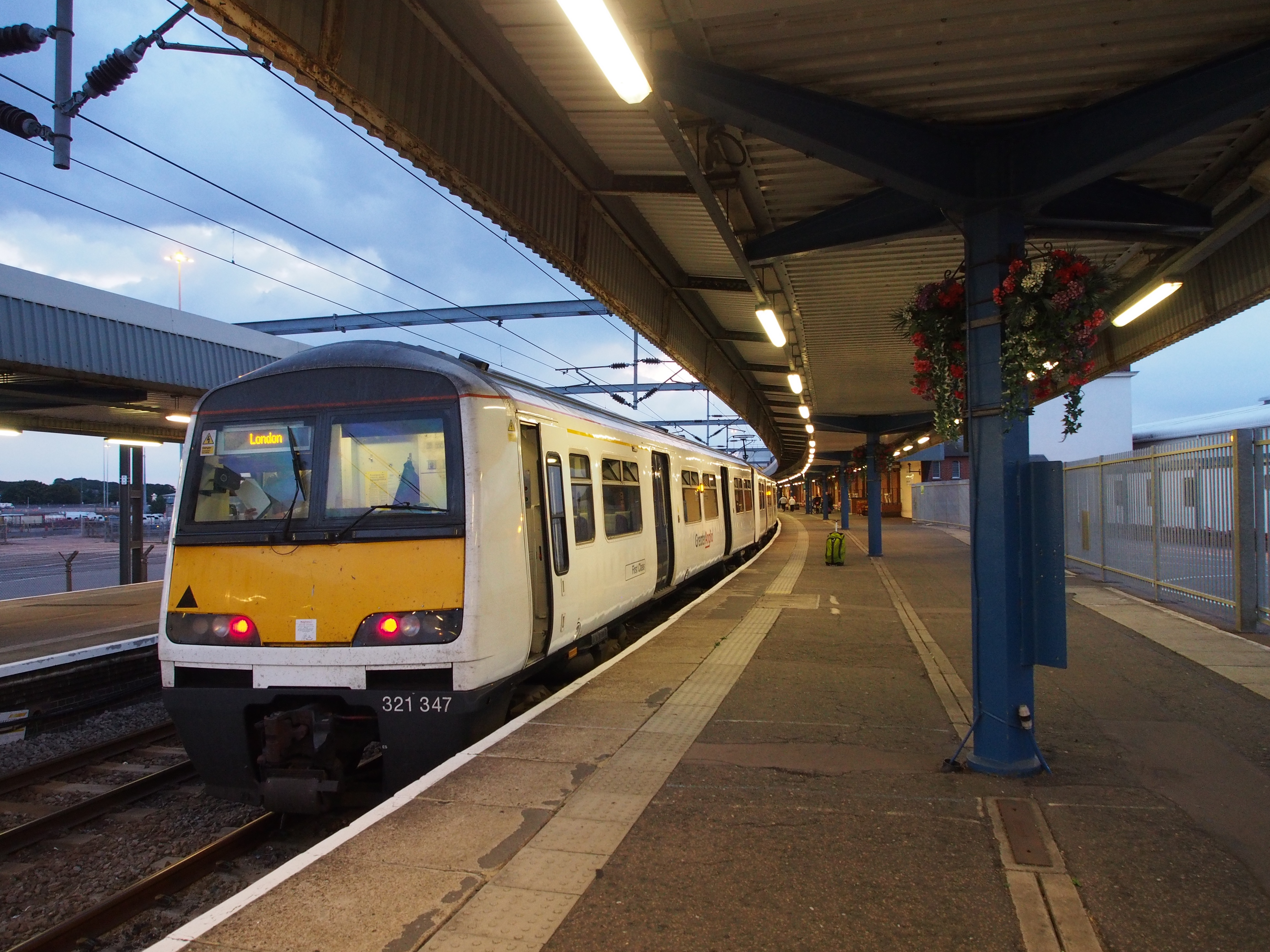 Greater anglia class 321 EMU 321347 stands at Harwich International.